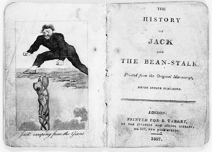 Title page and frontispiece of the first published edition of Jack and the Beanstalk, 1807.